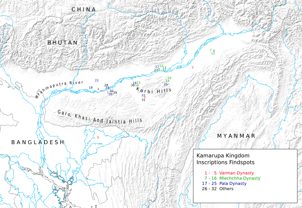 This map locates the findspots of different inscriptions associated with the en